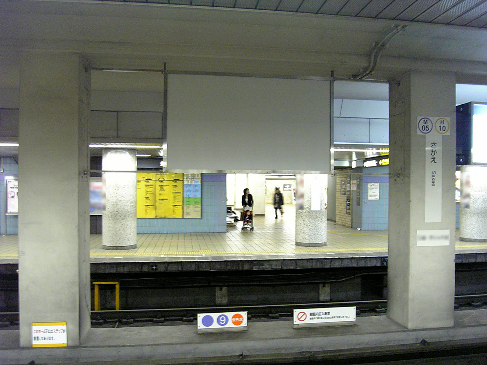 The display screen of "e-vivid network system" in Sakae station